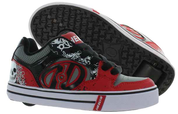 Heelys